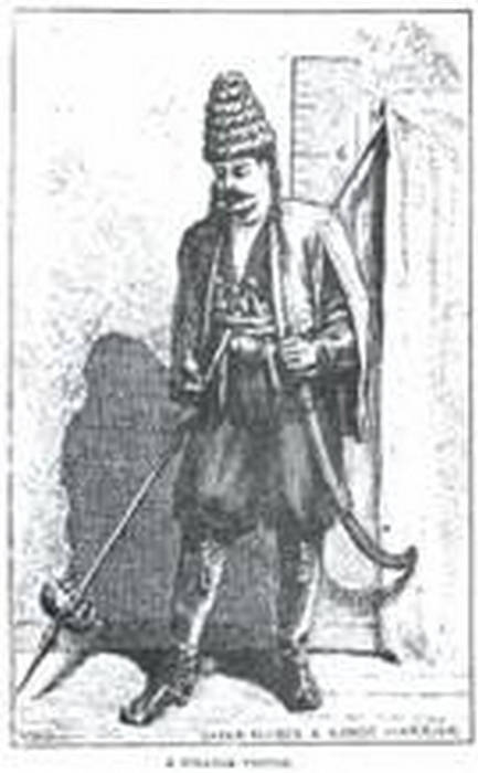 Safar Ali Bek, Illustration of Henry Steel Olcott's Book People From the Other World